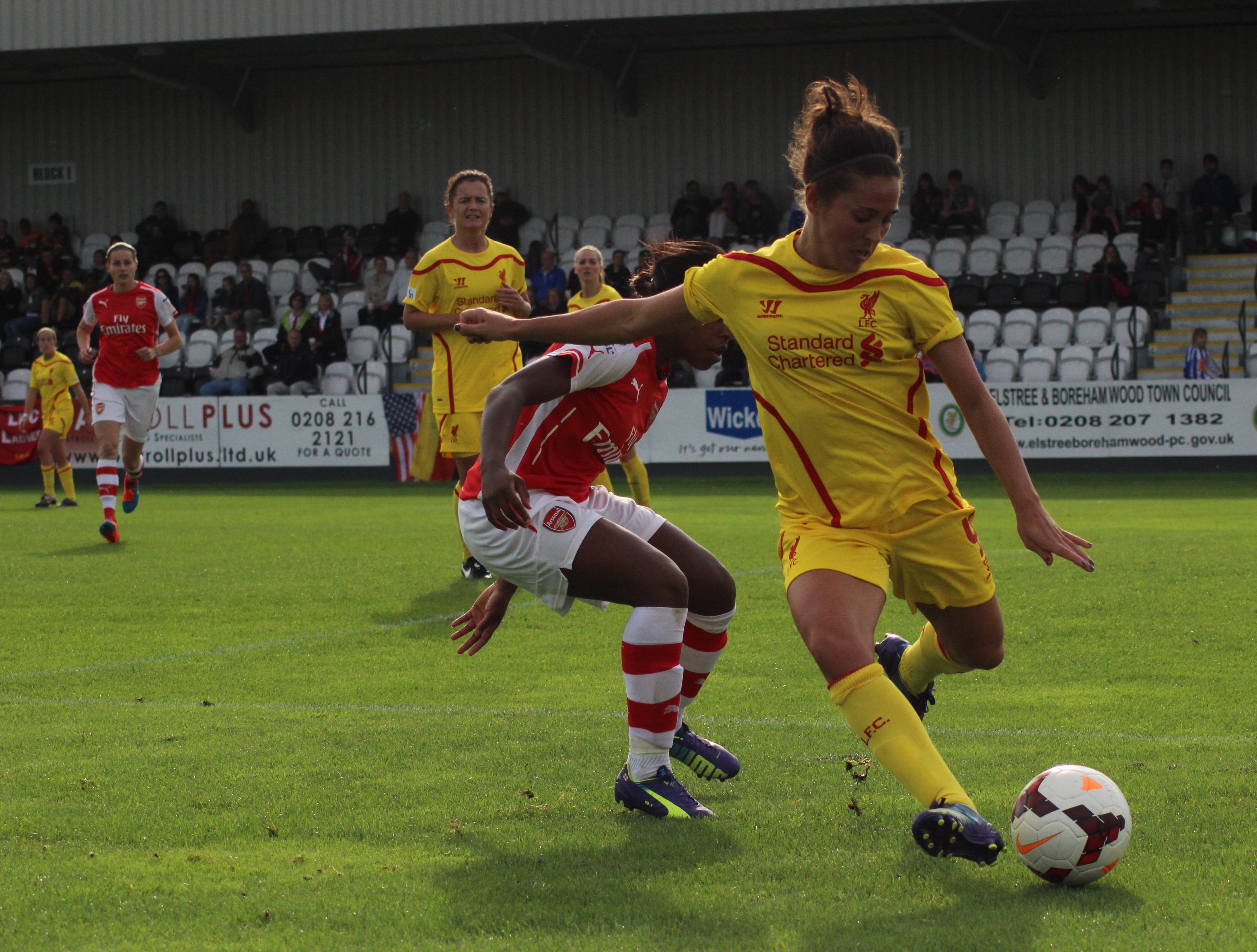 Fara Williams of Liverpool Ladies clears the ball in the WSL game against Arsenal Ladies